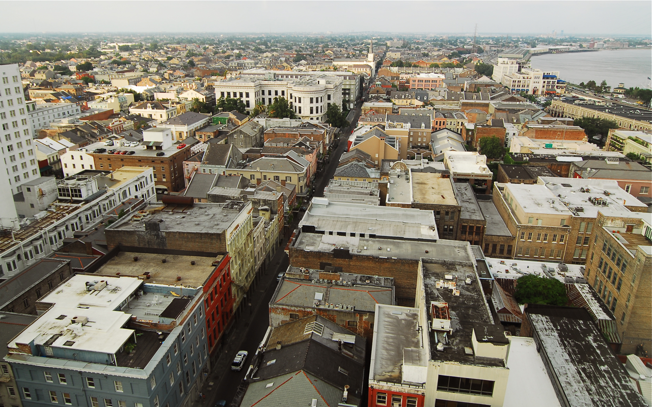 The French Quarter looking out from the Marriott Hotel in September of 2011.